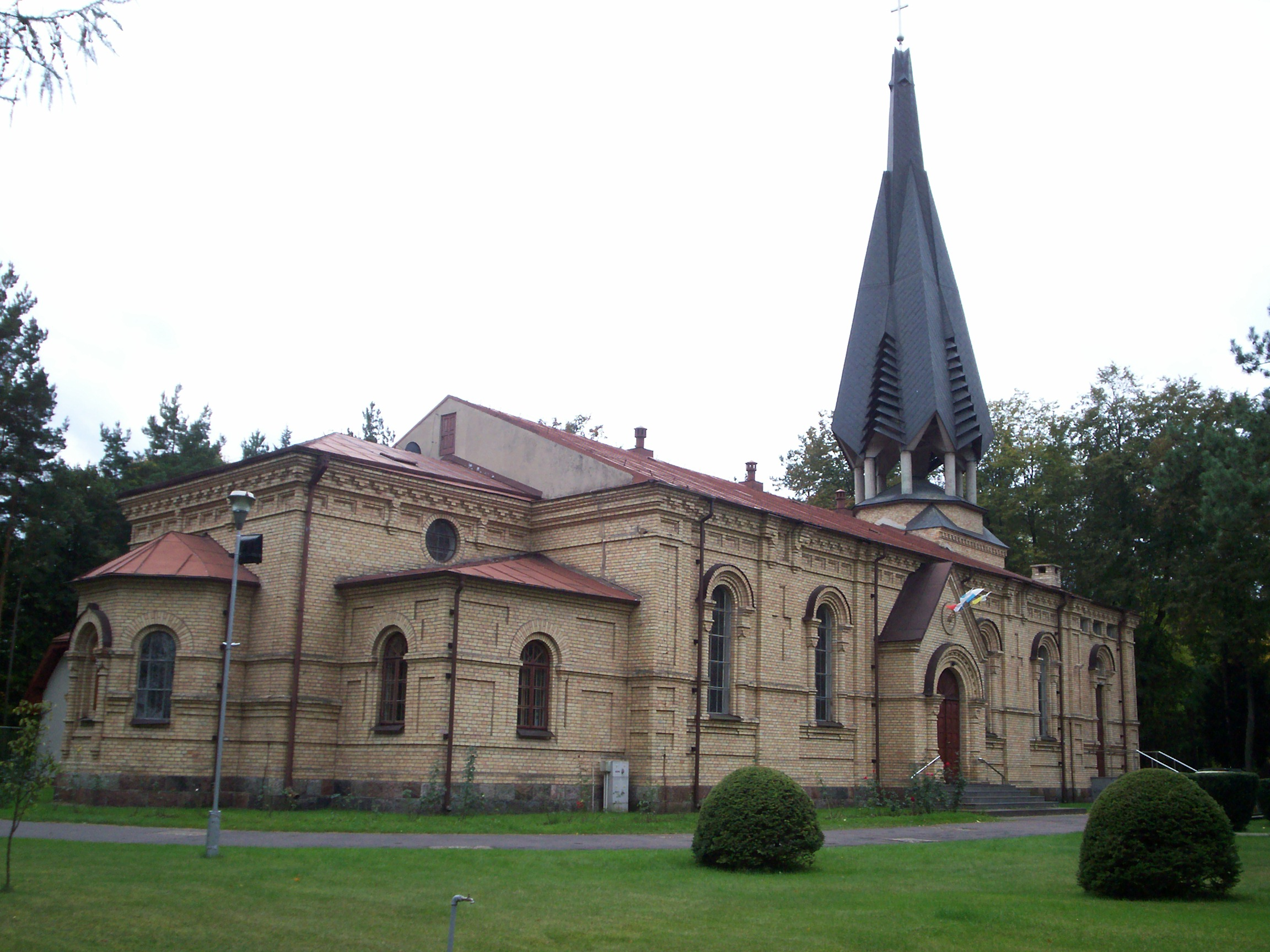 Church of St. Mary in Augustów.